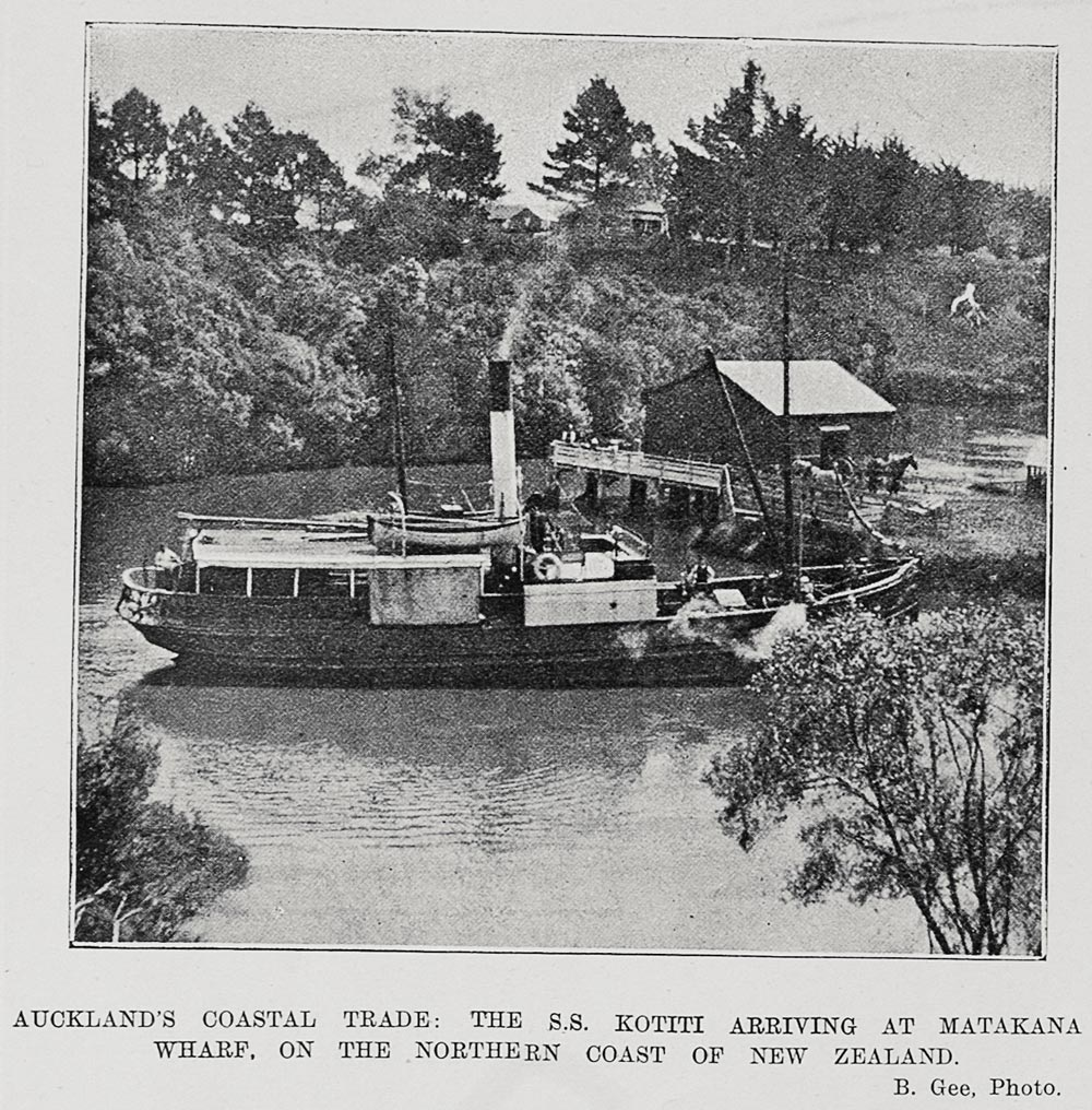 Northern Steamship Company's ss Kotiki at Matakana Wharf